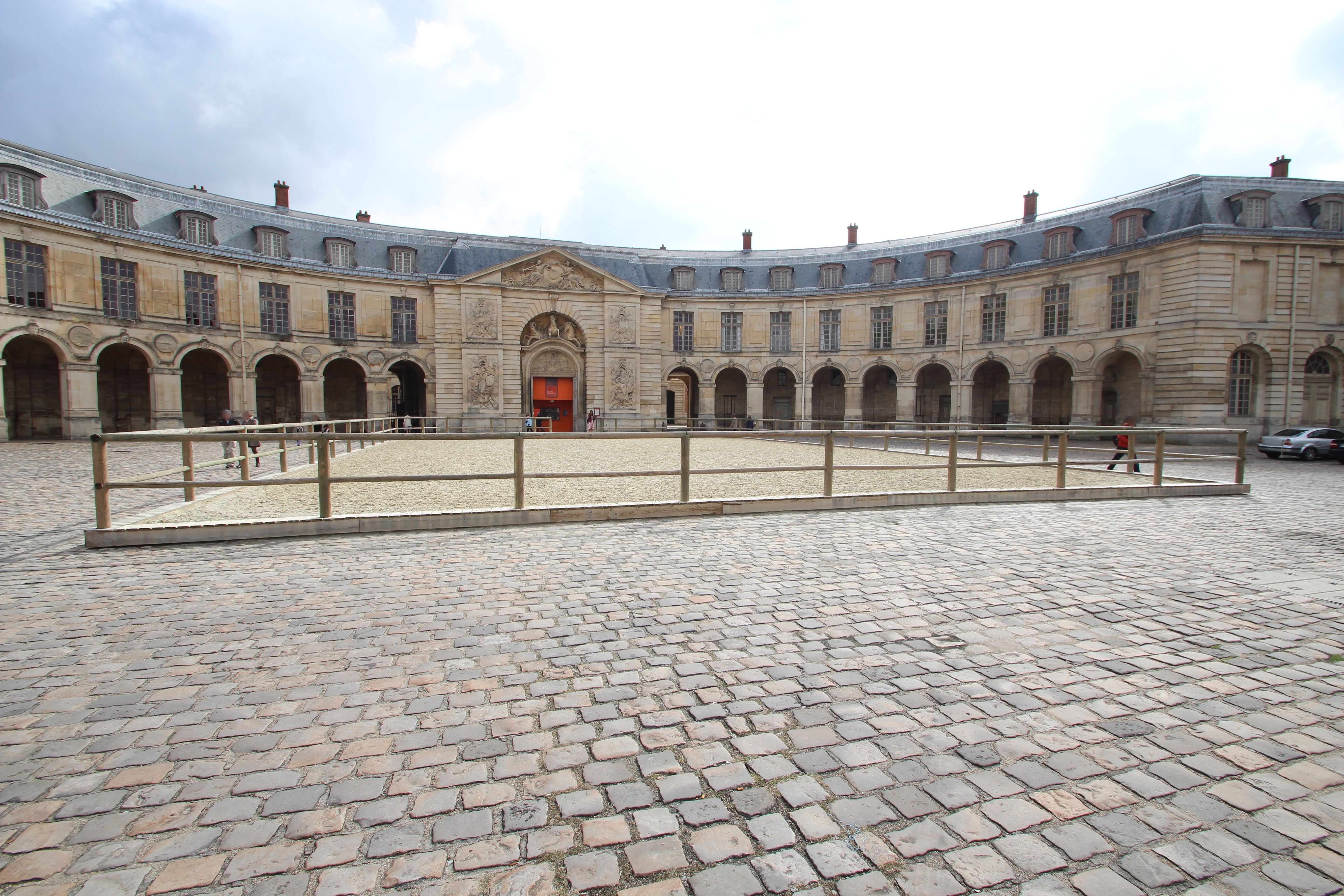 Grande Écurie (Great stable) of Versailles, France. Object location48° 48′ 13.64″ N, 2° 07′ 42.02″ E .